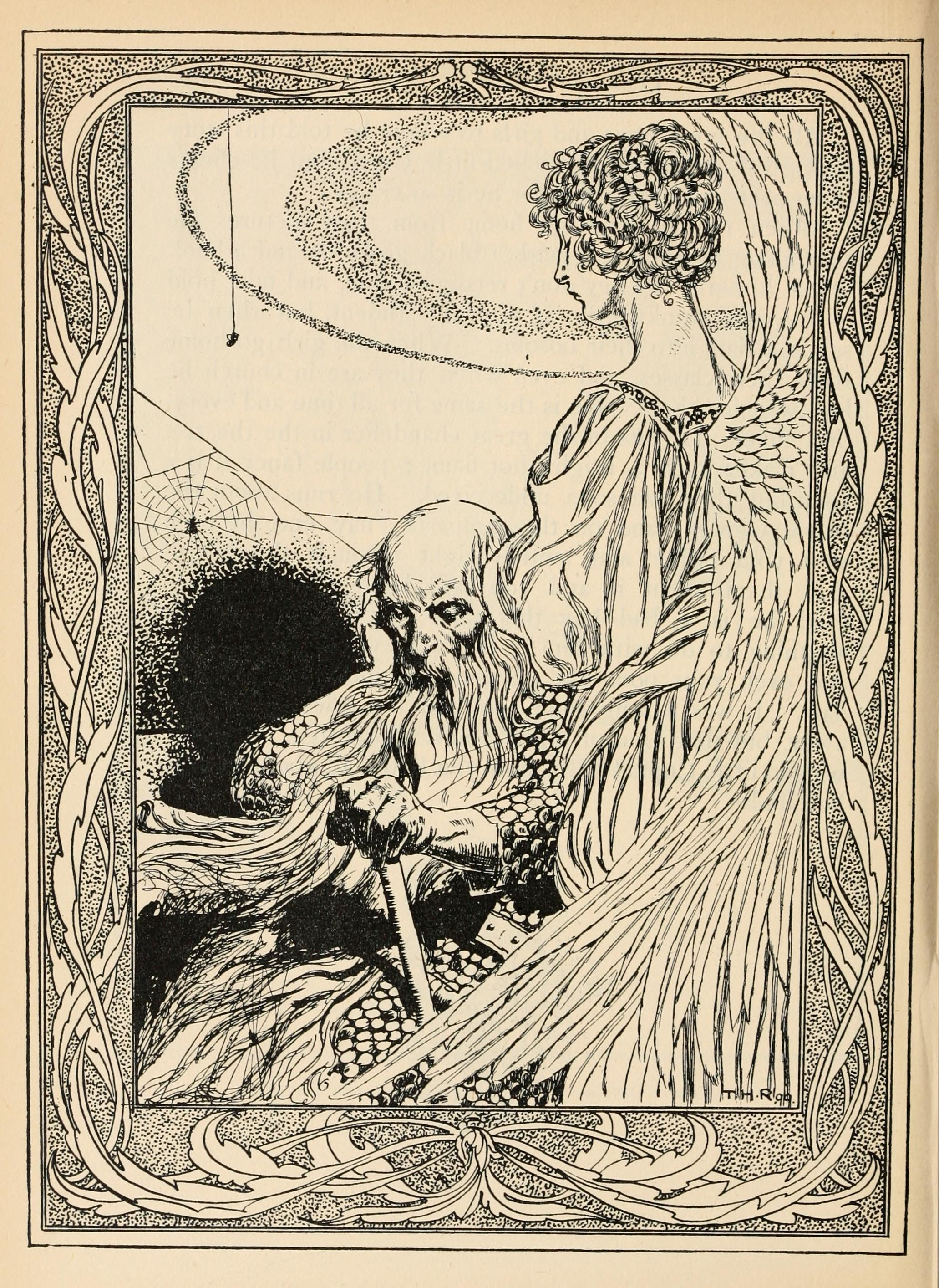 Every Christmas eve an angel comes and tells him he has dreamt aright.